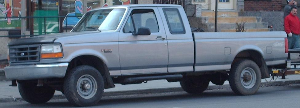 1991-1996 Ford F-250 photographed in Montreal, Quebec, Canada.